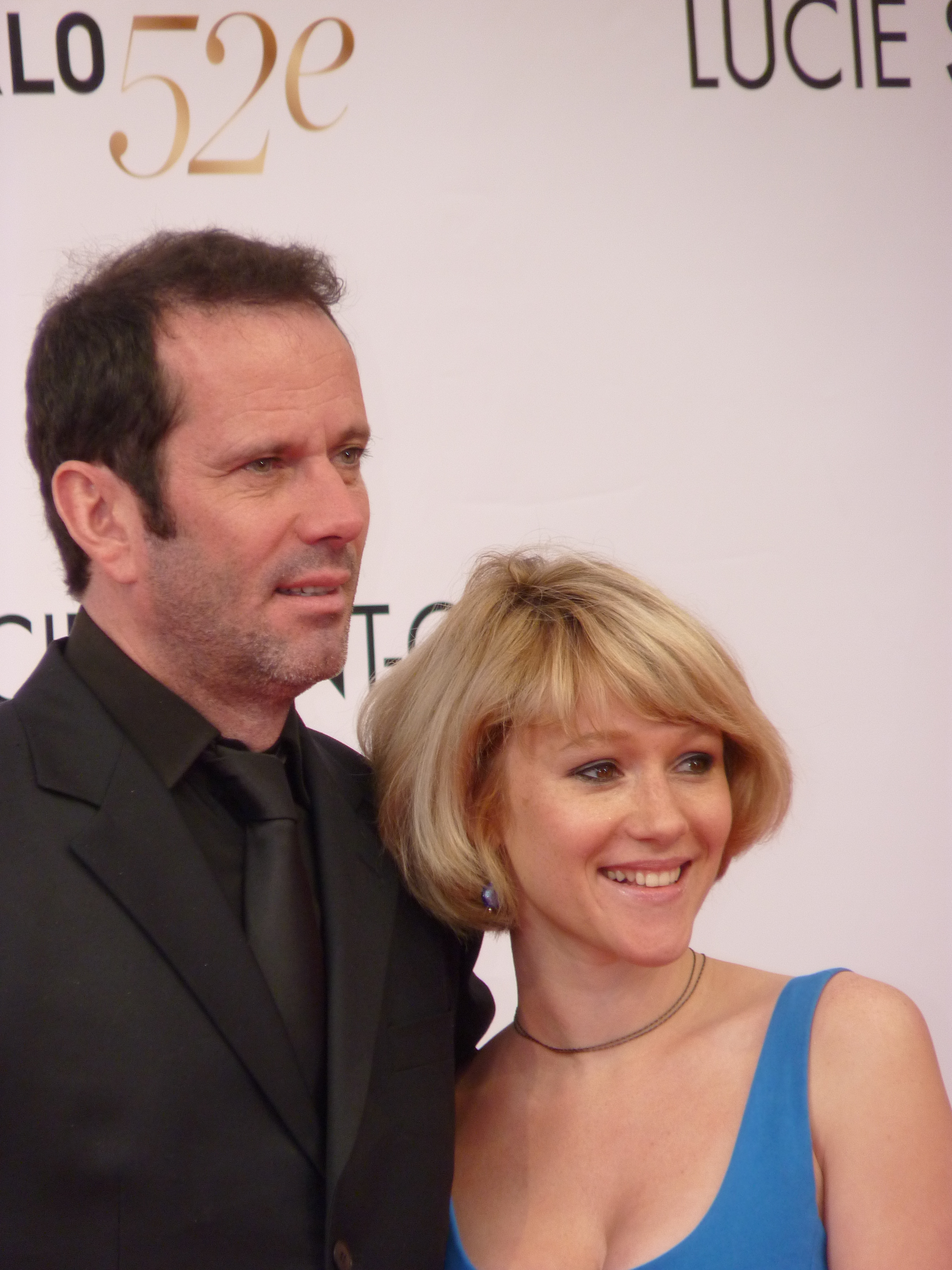 Christian Vadim and Julia Livage at the 2012 Monte-Carlo Television Festival.